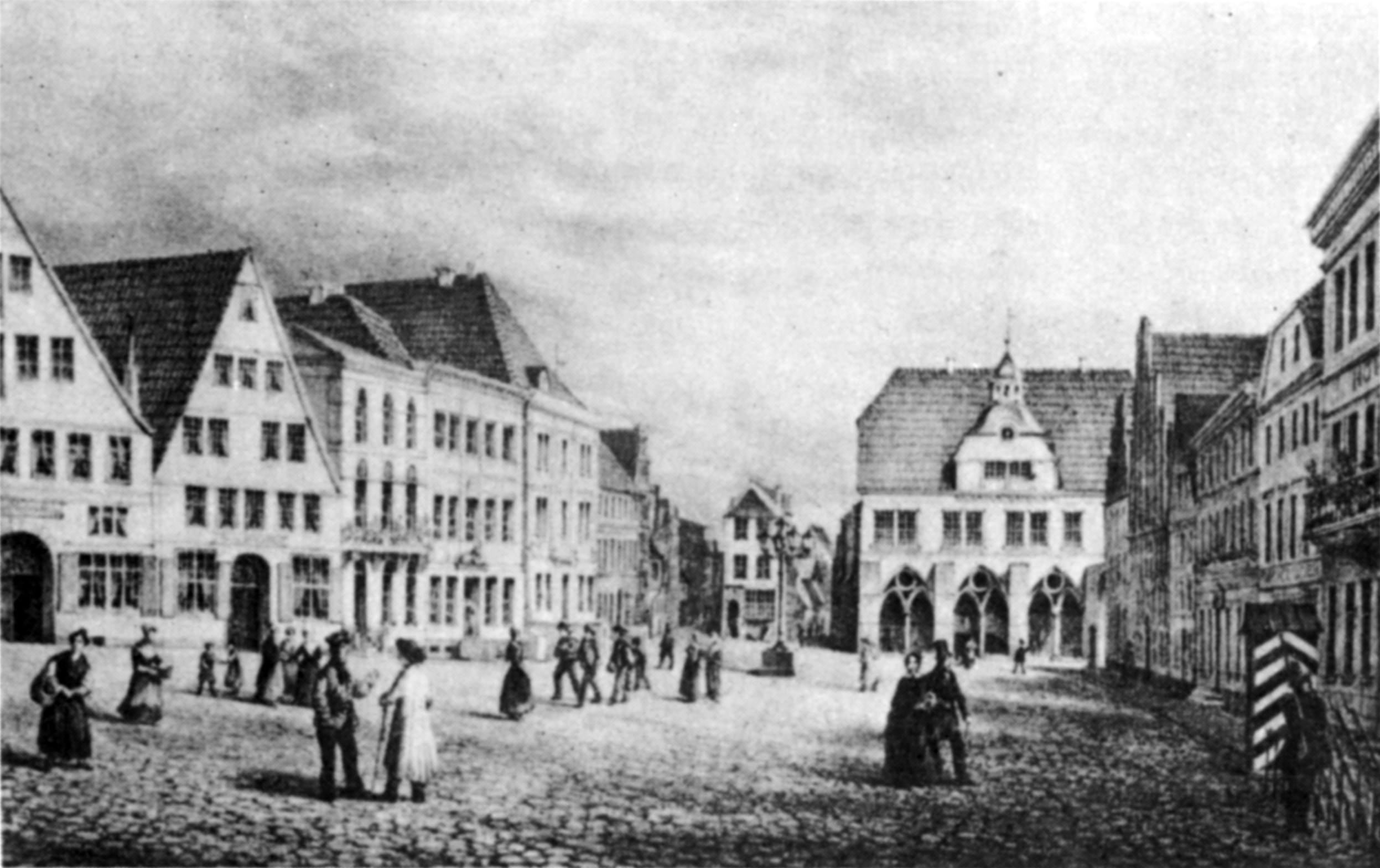 Historic town hall in Minden, today Minden-Lübbecke, today North Rhine-Westphalia, today Germany at about 1840.